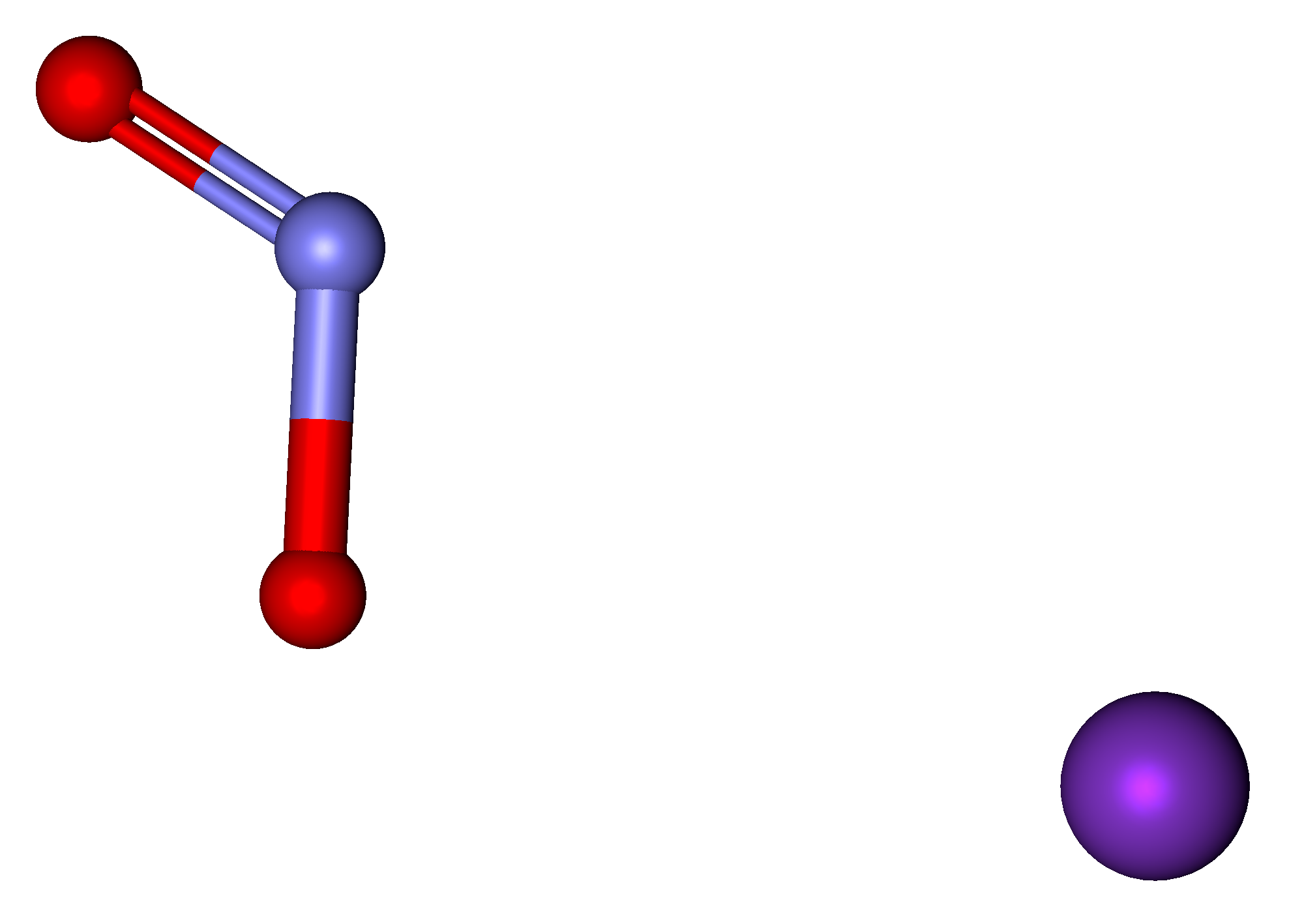 Ball-and-stick model of Potassium nitrite molecule. The structure is taken from ChemSpider. ID 22857